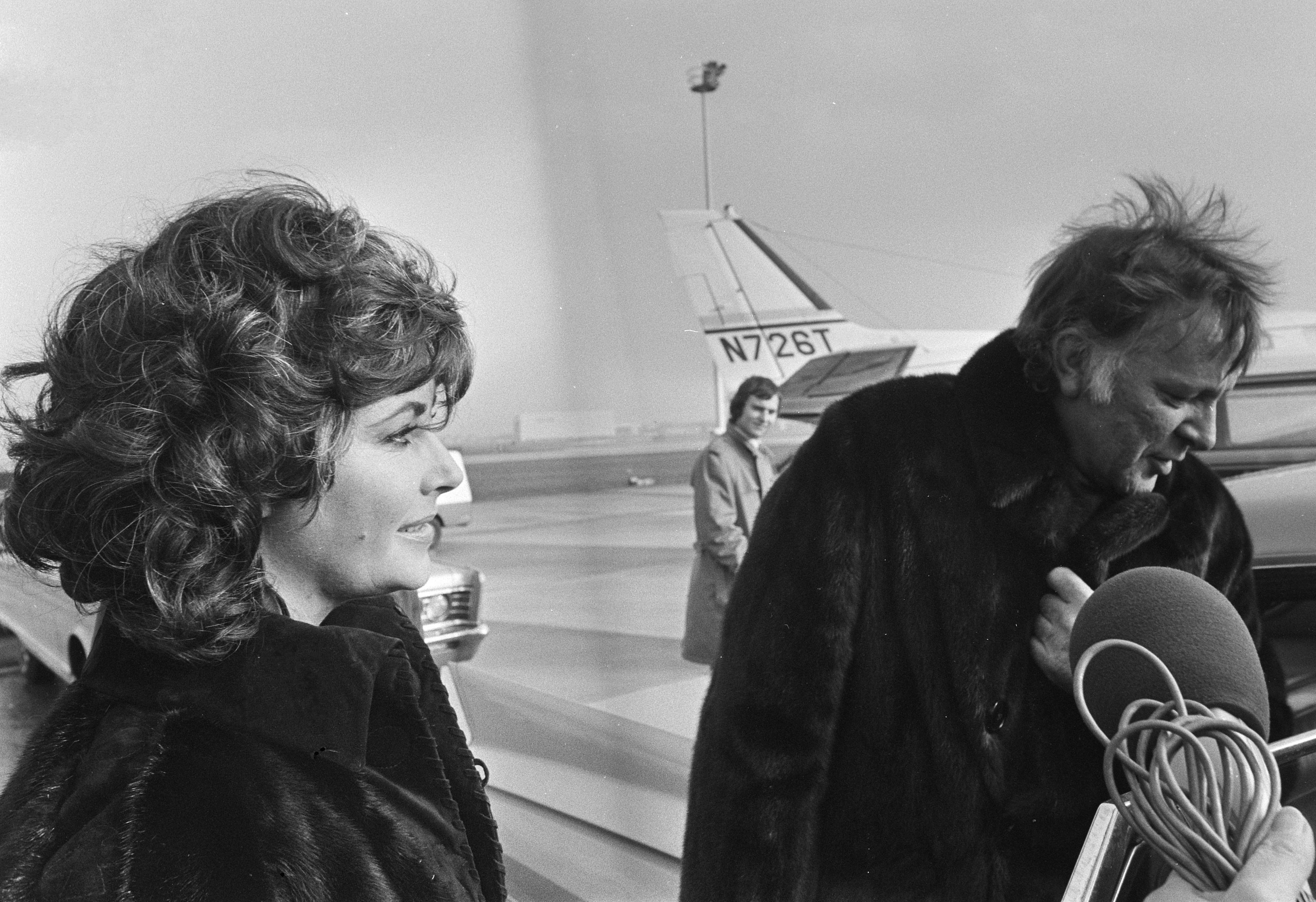 Elizabeth Taylor and Richard Burton at Schiphol